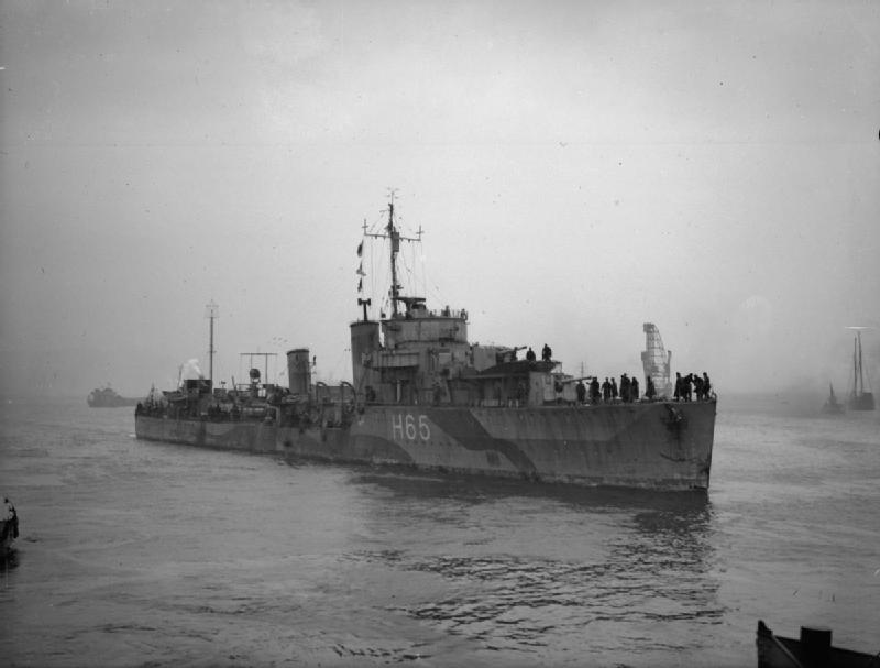 The Royal Navy during the Second World War HMS BOADICEA, the British "Beagle" class destroyer, underway in coastal waters off Greenock.